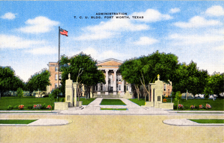 Postcard with image of Texas Christian University, Administration Building, Fort Worth, TX (circa 1911-1924)